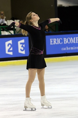 Yuliya Lipnitsкaya at the Trophee Eric Bompard 2015